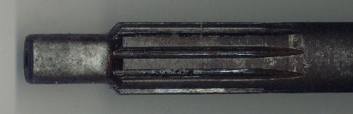 Splined driveshaft. Scan, upload MH 18:42, 2005 Jun 4 (UTC)